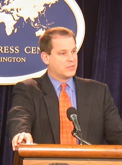 National Security Council Spokesman Sean McCormack at the Washington Foreign Press Center Briefing on "NSC Briefing for Foreign Media."